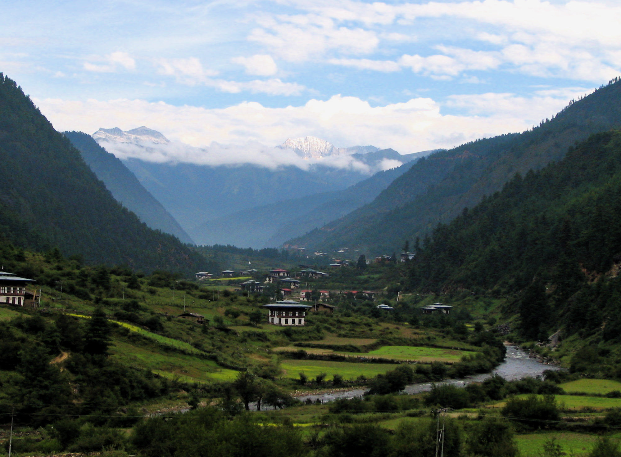 Haa Valley, Bhutan, Douglas J. McLaughlin, September 6, 2006